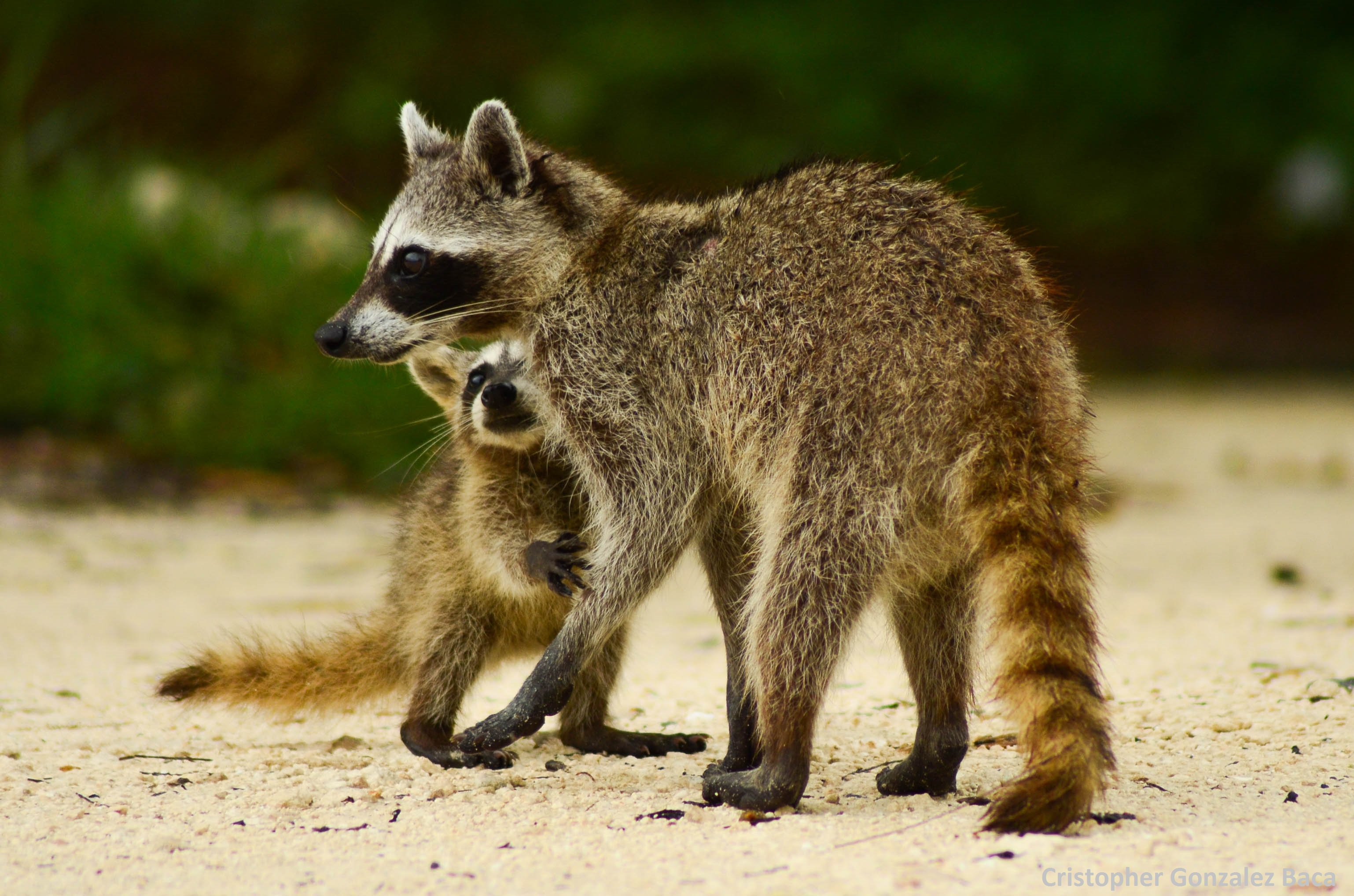 Mapache enano de Cozumel. Unos de los 8 carnívoros del mundo en peligro crítico de extinción. Cozumel dwarf Raccoon. One of the world's nine critically endangered carnivores.